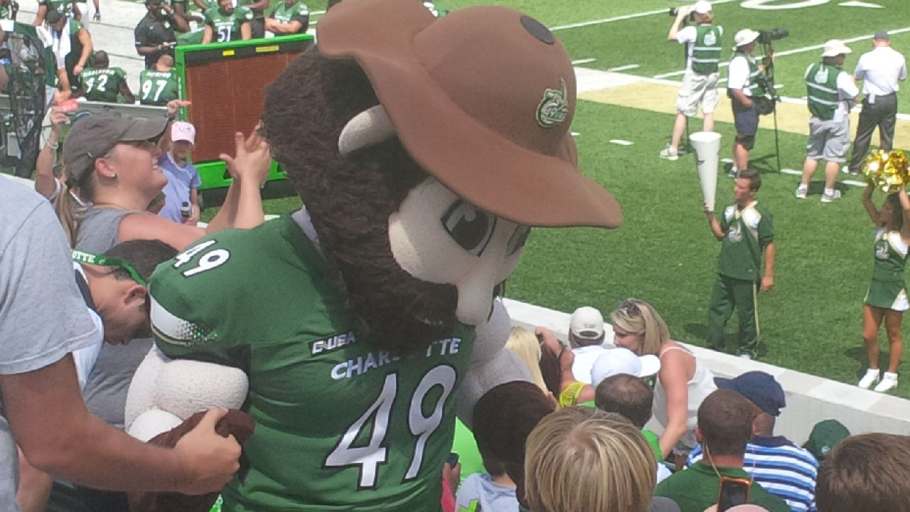 UNC Charlotte mascot Norm the Niner